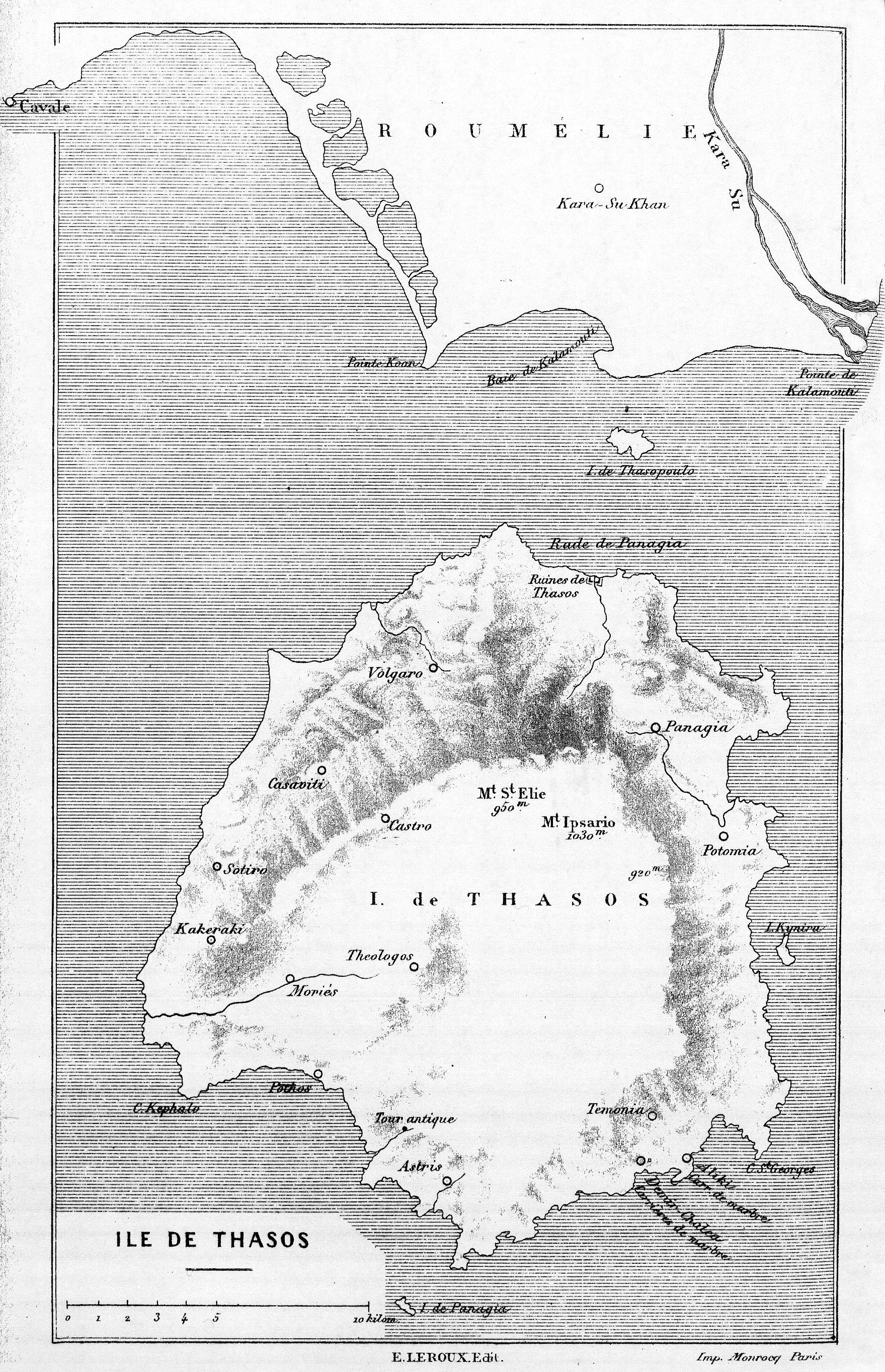 Thasos nach E. C. B. Miller (1889)